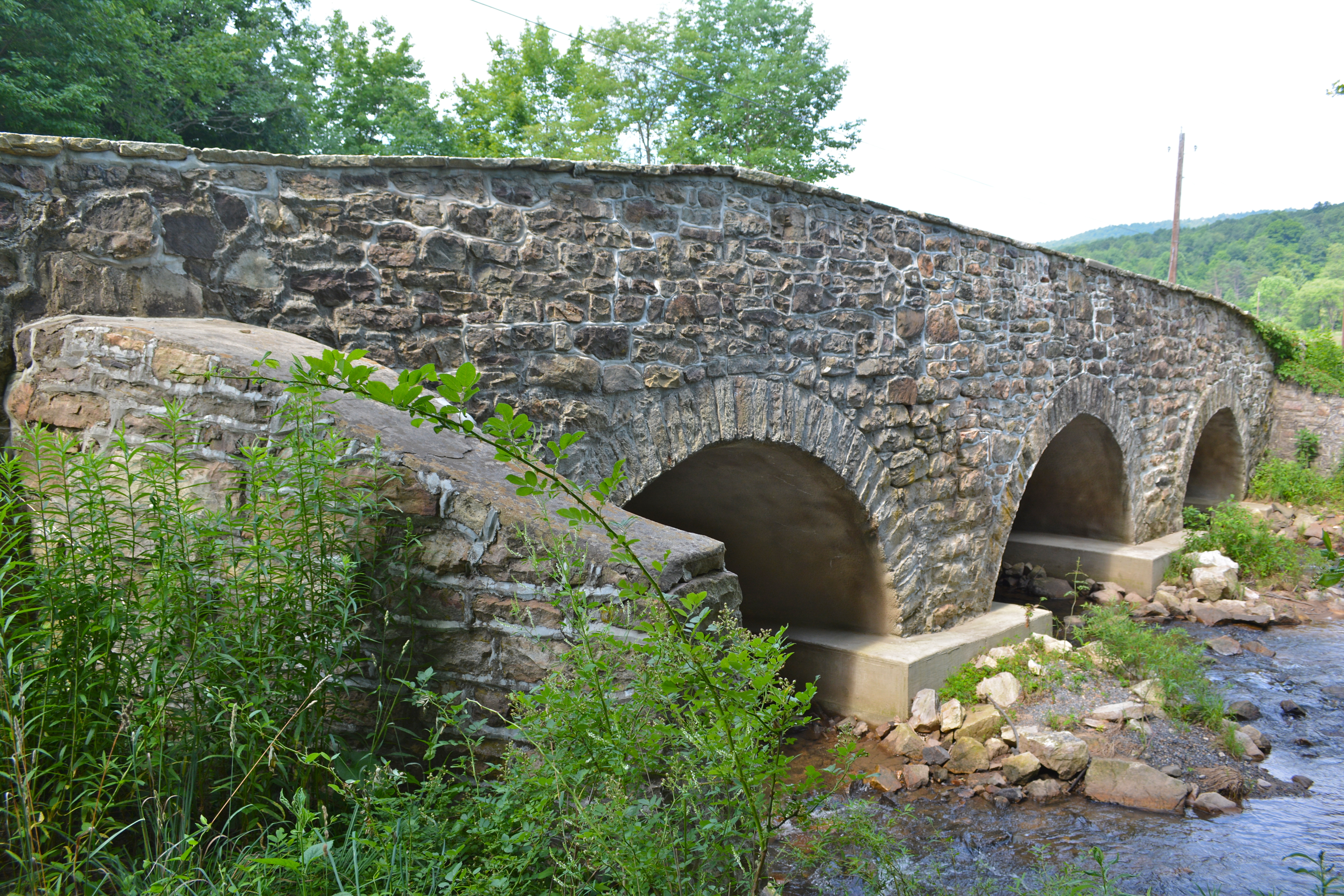 Horse Valley Bridge listed on the NRHP on June 22, 1988 (#88000775) Legislative Route 28093 over Conodoguinet Creek near Upper Strasburg, Letterkenny Township, Franklin County, Pennsylvania. The road is now numbered 4004 and is known as Upper Strasburg Road, and was formerly part of the very old Three Mountain Road, Near by Skinner Tavern which George Washington visited or rode by in 1784 during the Whiskey Rebellion - he didn't like the road